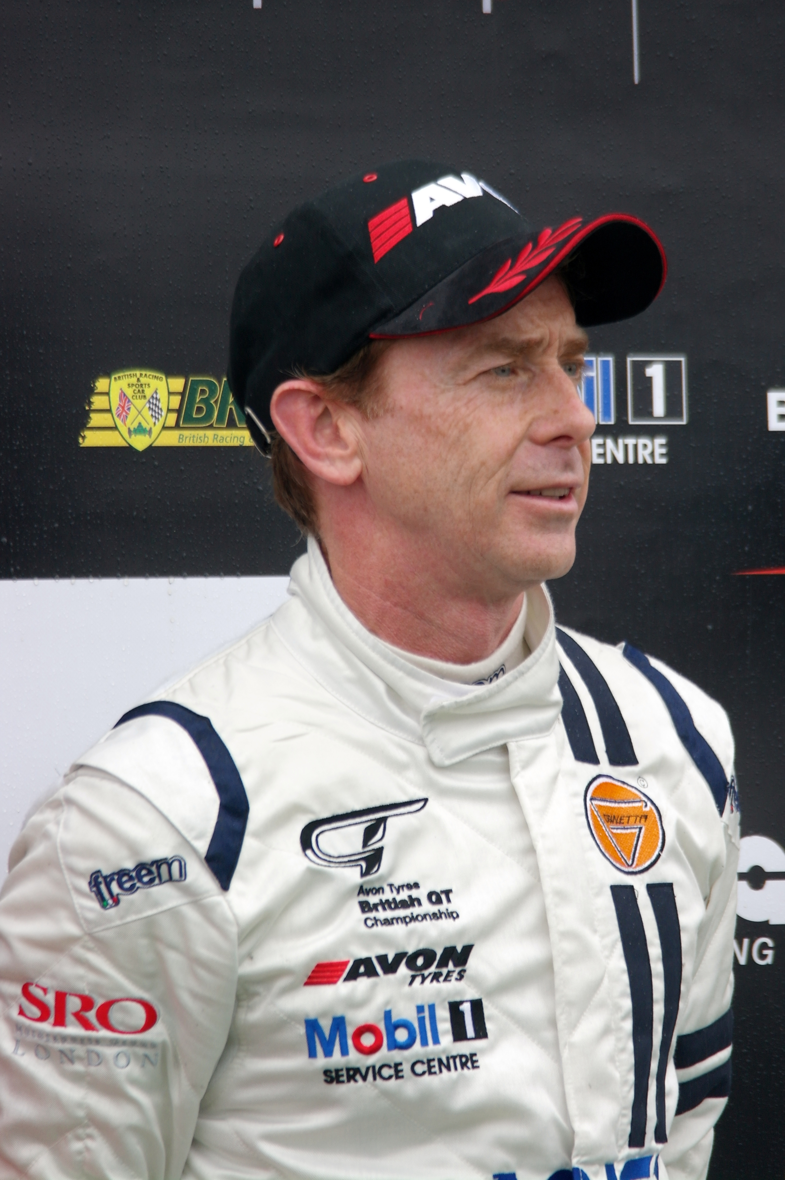 Warren Hughes as a driver for Team WFR at the Oulton Park round of the 2012 British GT Championship season.